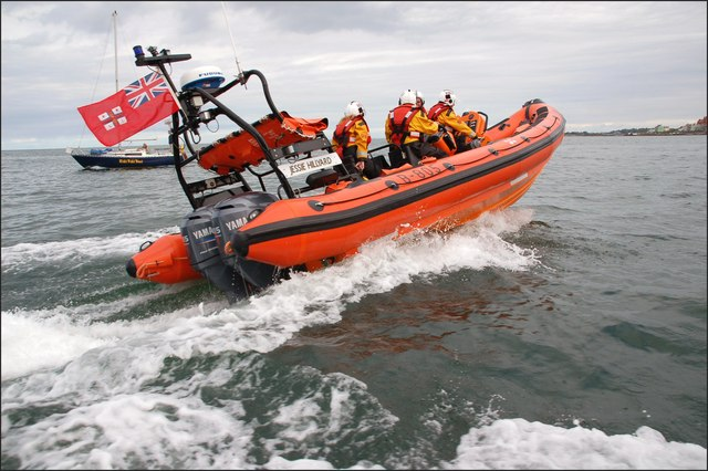 Bangor lifeboat. See 254913. Bangor's lifeboat "Jessie Hillyard" on exercise. Ballyholme is at top right.